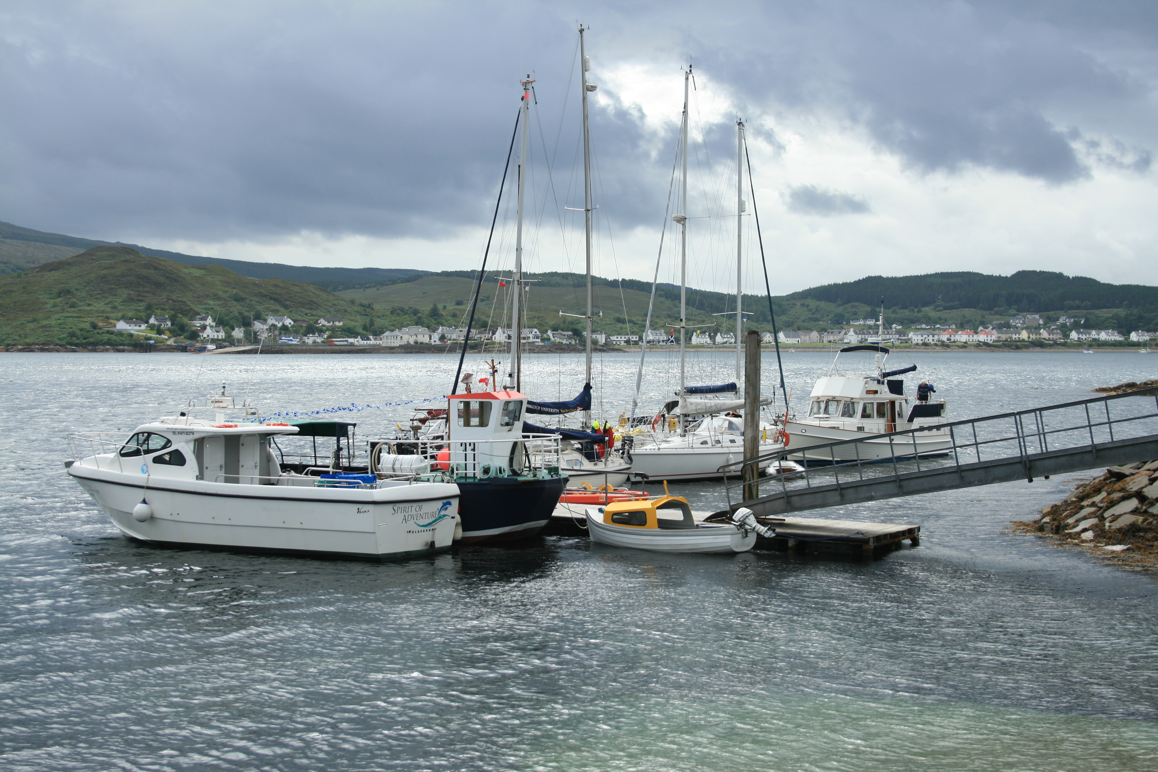 Small yacht marina, Kyle of Lochalsh, Highland